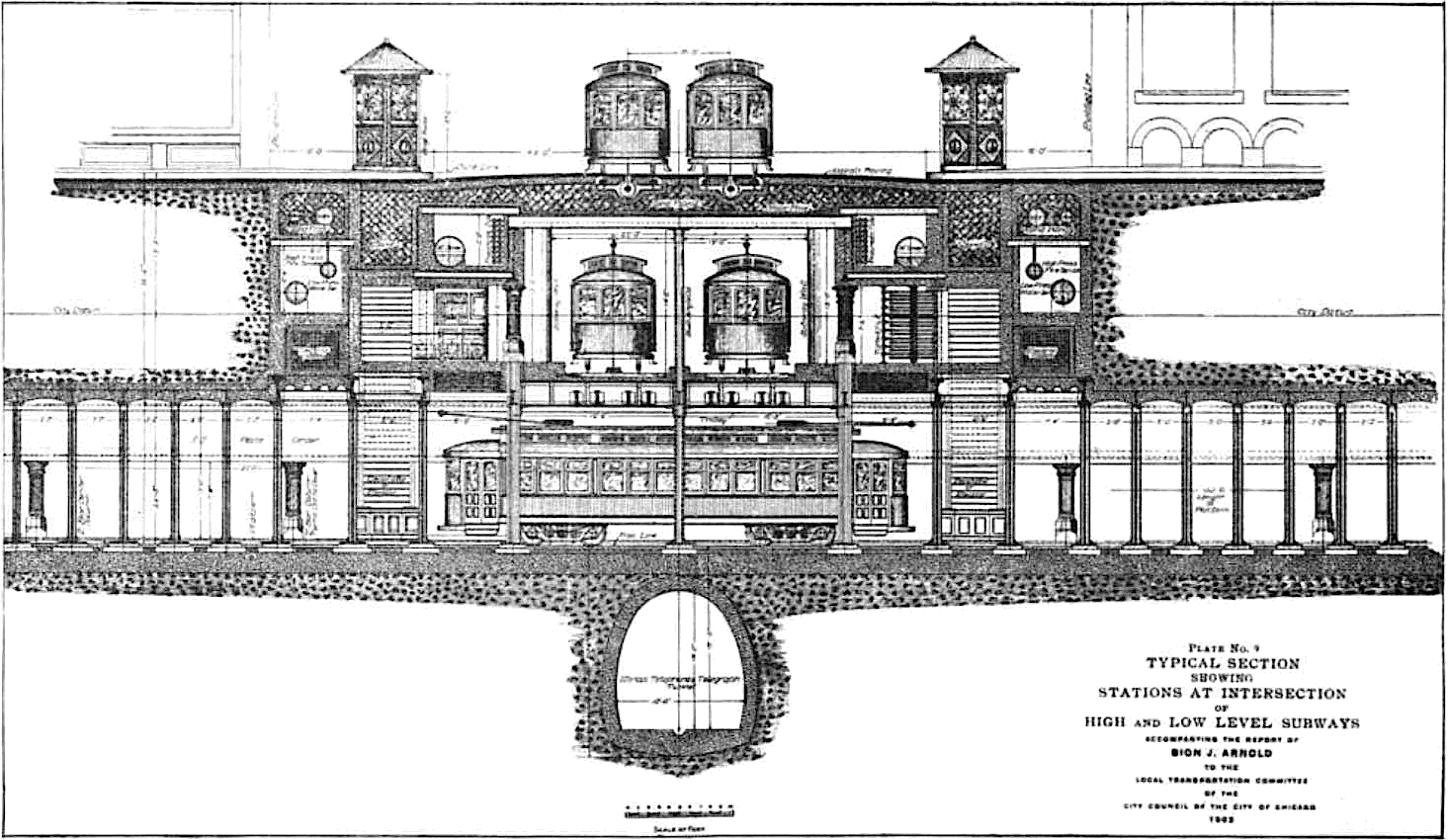 Original caption: "Plate No. 9, TYPICAL SECTION SHOWING STATIONS AT INTERSECTION OF HIGH and LOW LEVEL SUBWAYS accompanying the report of Bion J. Arnold to the Local Transportation Committee of the City Council of the City of Chicago 1902. Note that this subway plan was never built.